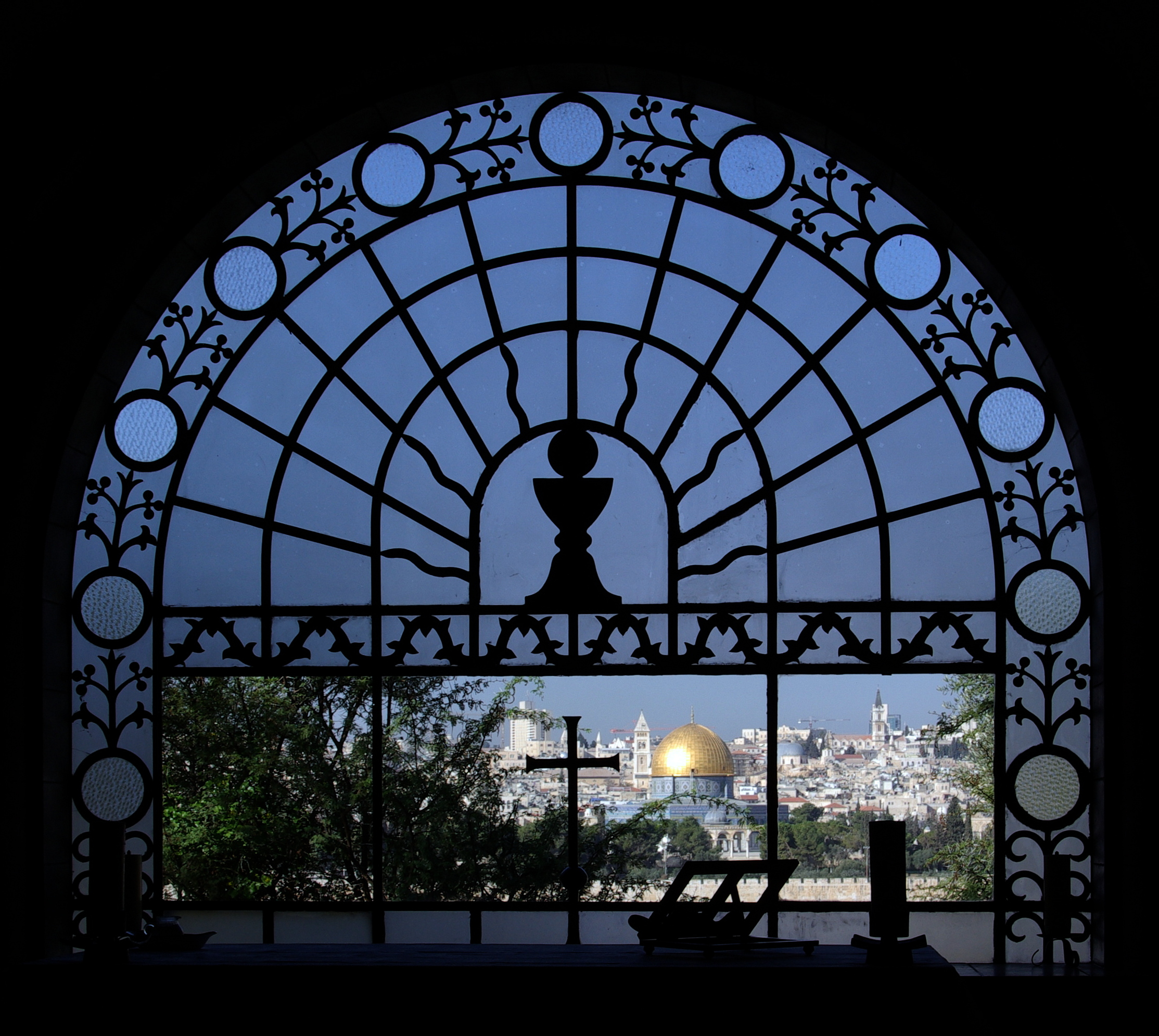 Jerusalem, Dominus flevit, view to the Mount Moriah